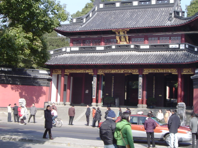 The front entrance to the Yue Fei shrine and tomb; West Lake, Hangzhou, China. Photo taken by Sumple on 20/12/2003. As a courtesy, and entirely voluntarily, please notify me if you change this image or its description.